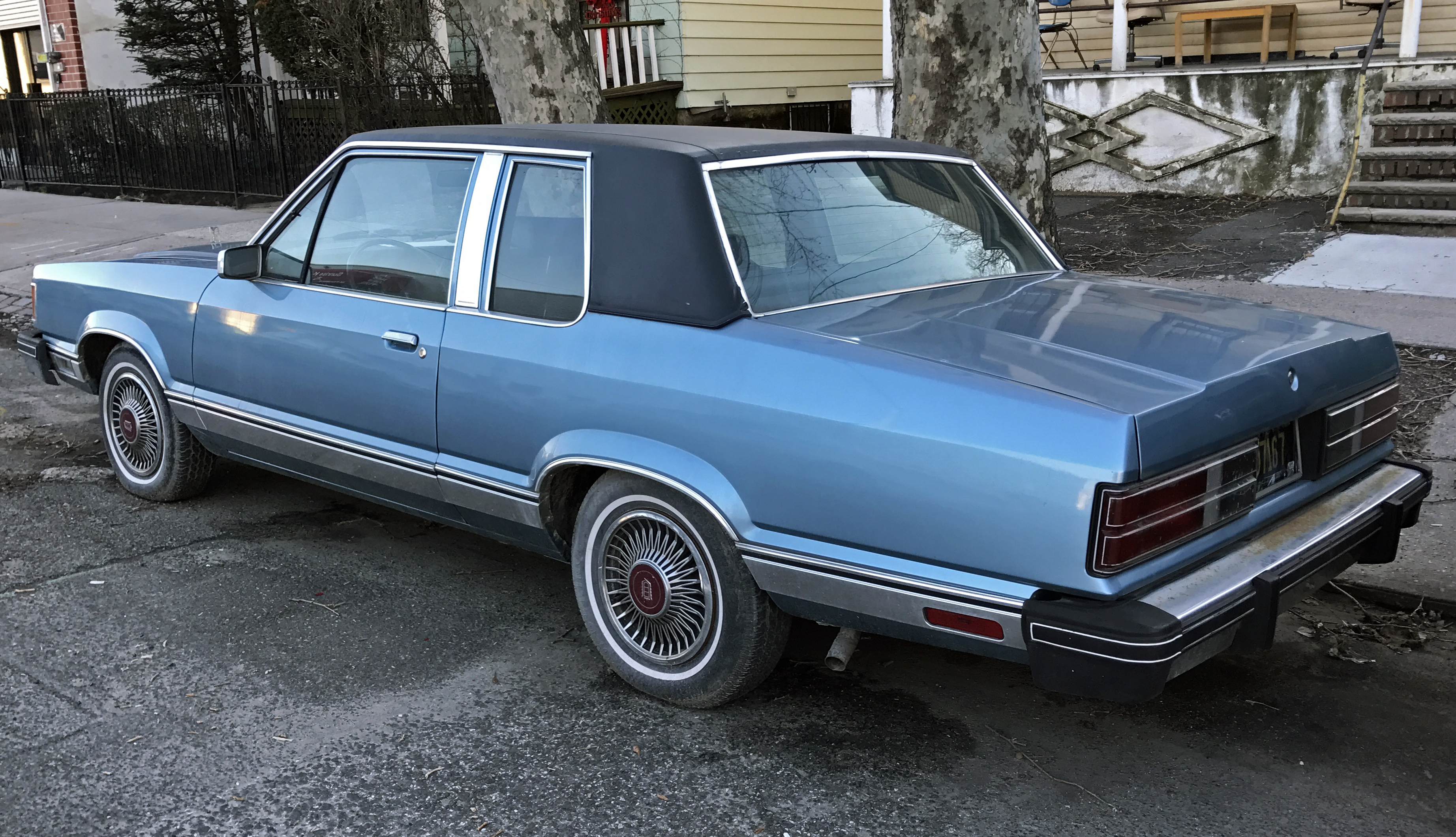 A 1982 Ford Granada 2-door coupé.